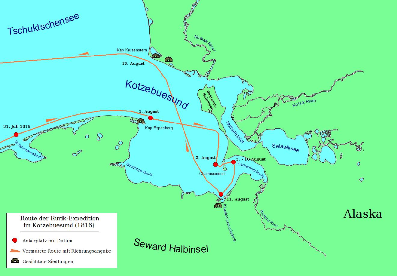 The route in the Kotzebue Sound, Alaska, of the russion Rurik expedition in 1816.